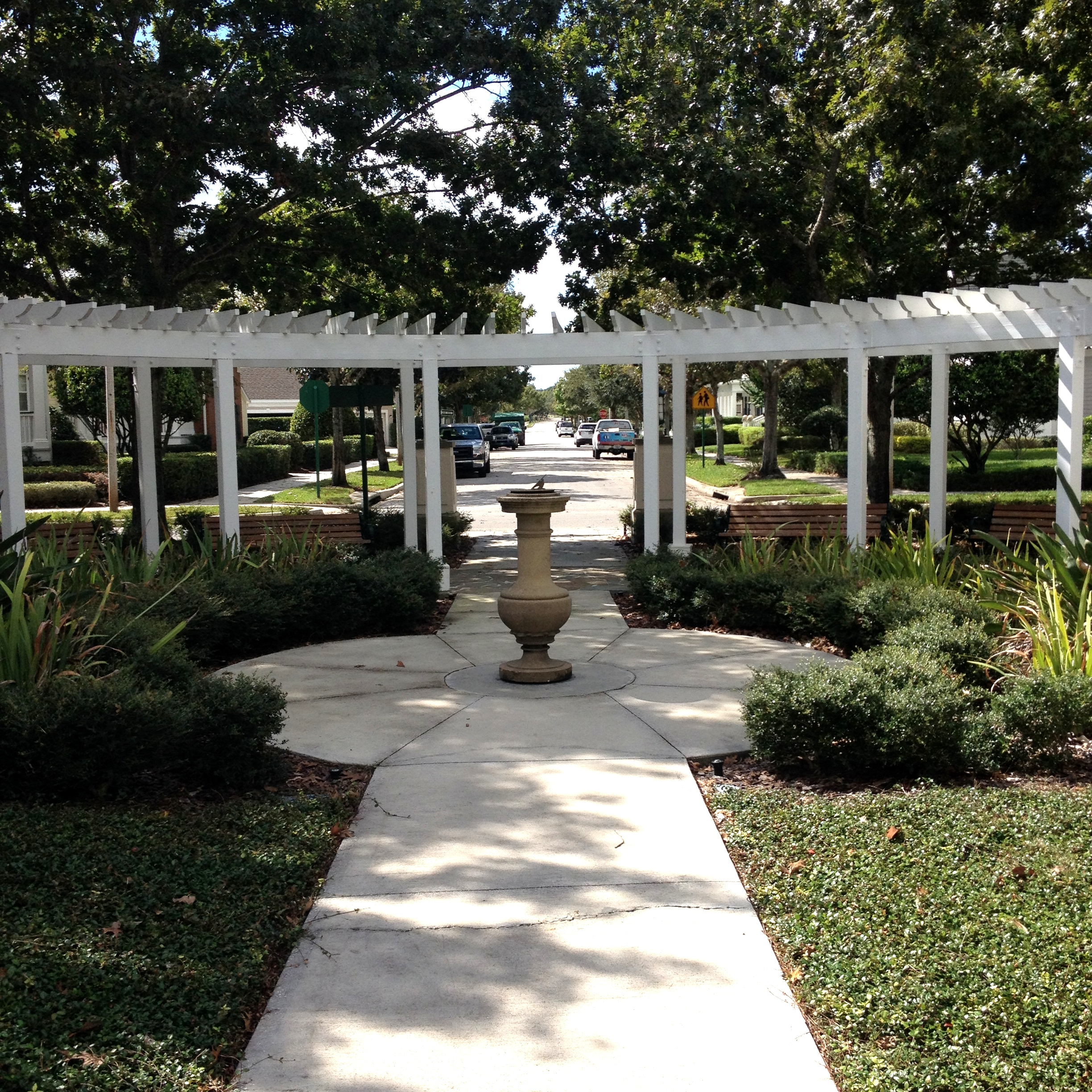 celebration